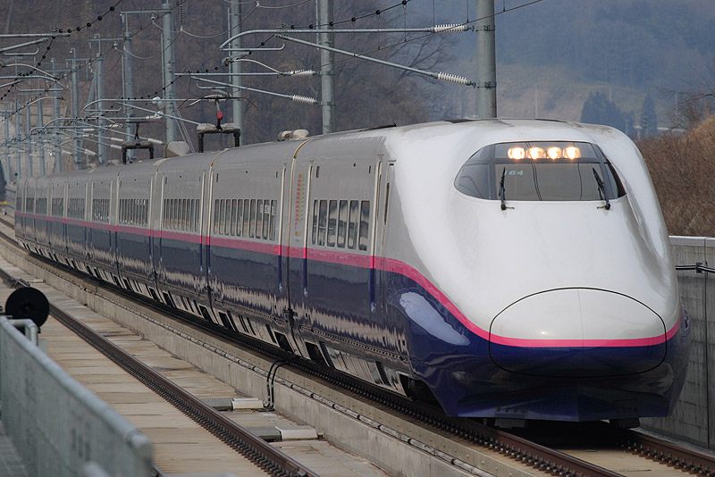 JR East E2-1000 series shinkansen set J64 approaching Iwate-numakunai Station on a Hayate service